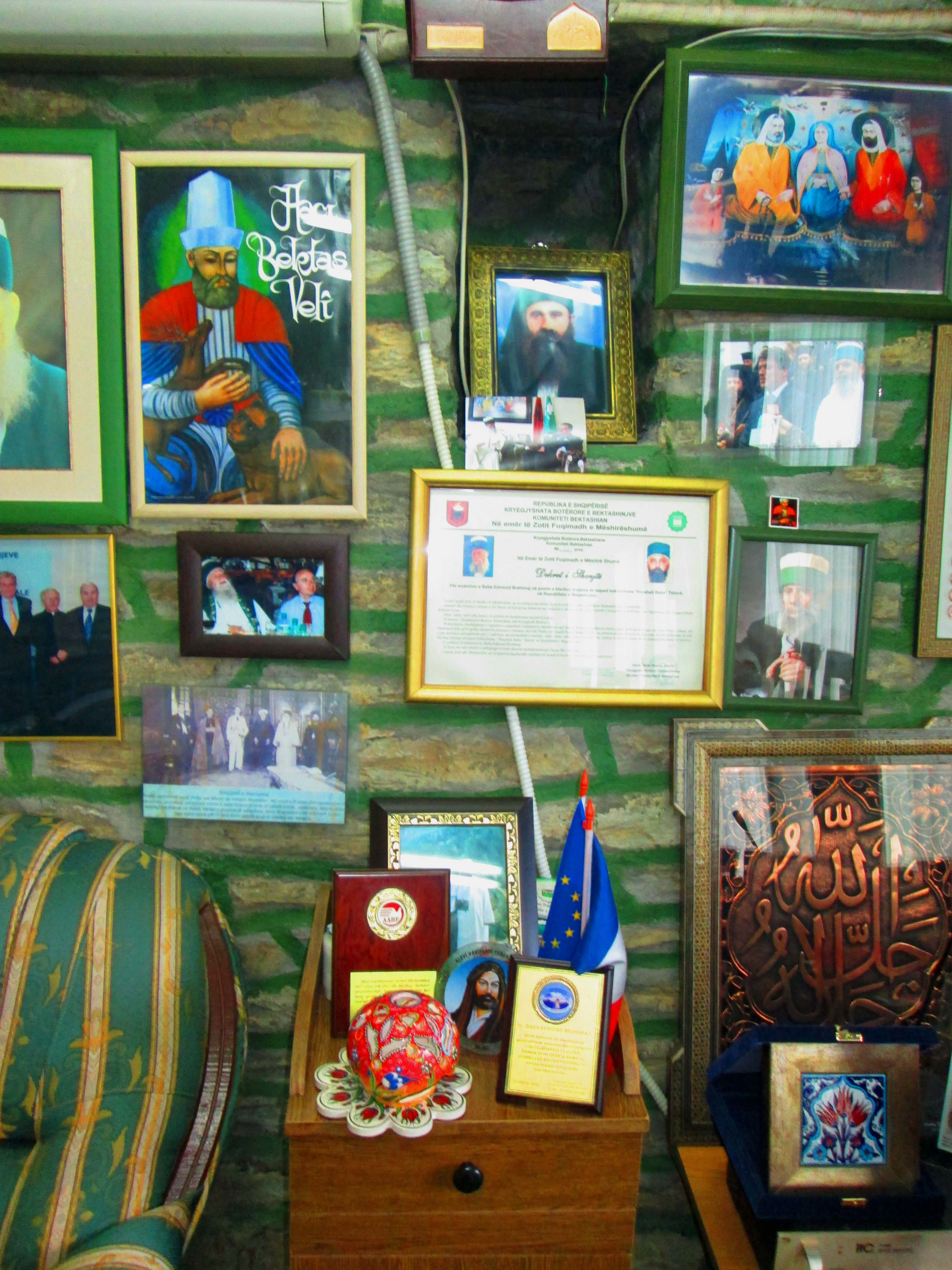 The room in Arabati Baba Teke where visitors are received with all the features of the Bektashi and photos from various meetings with prominent figures from different areas of life